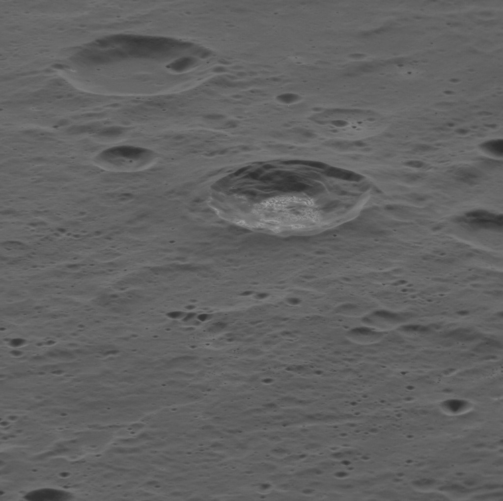 Oblique view of Calder crater on Mercury. MESSENGER Narrow Angle Camera, rotated and cropped slightly. North is to left. Emission Angle: 65.5 Incidence Angle: 63.3 Latitude: 3.6 Longitude: 12.5 Phase Angle: 128.7